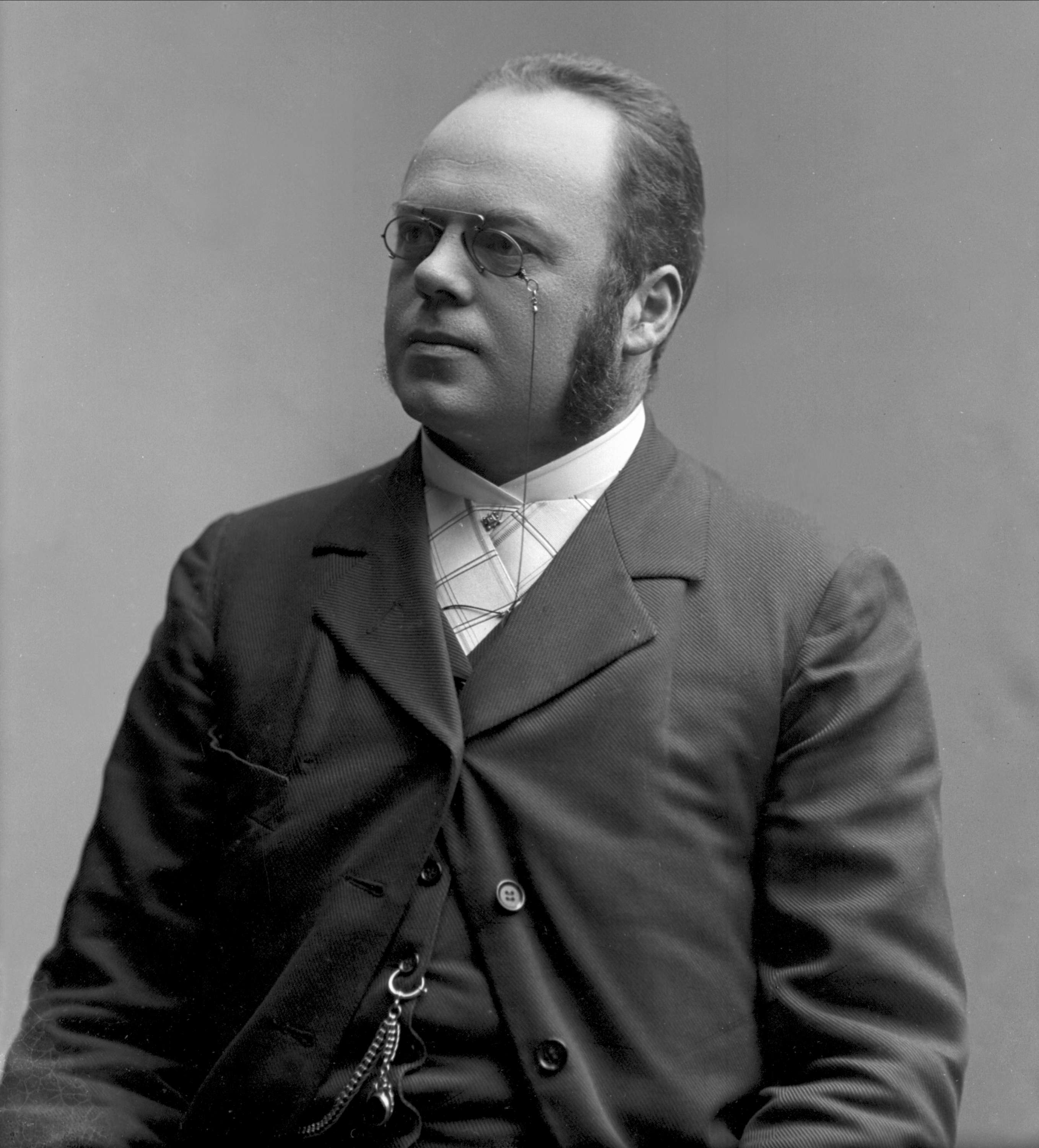 Jens Johannes Jebsen was the founder of Jens J. Jebsen & Co. Textile industry in Berger in Vestfold county in Norway